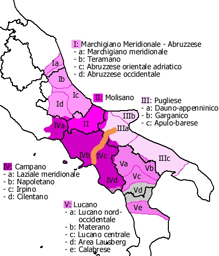 Salerno-Lucera line